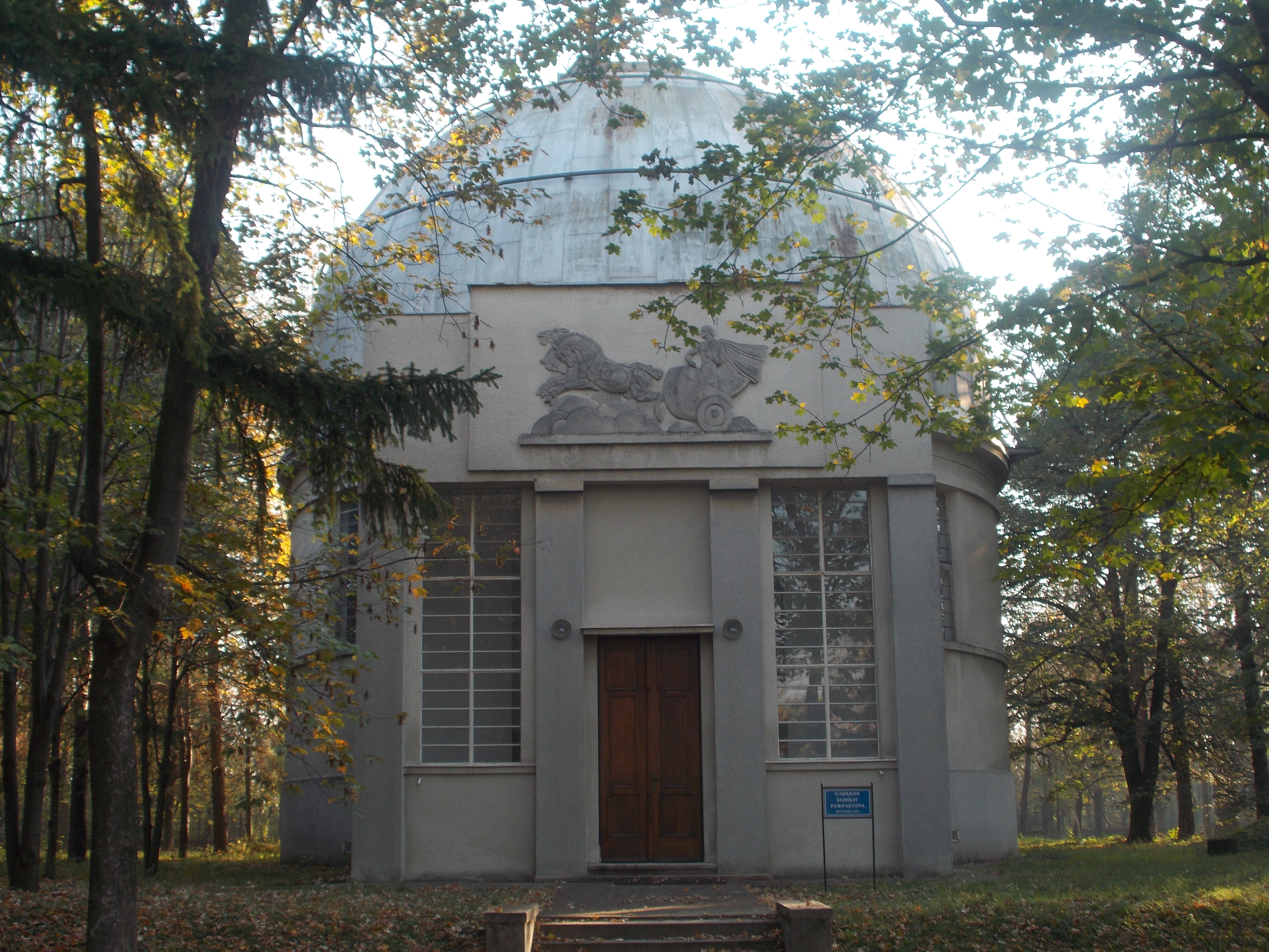 Pavilion of Large Refractor ″Carl Zeiss″ 650/10550 mm of Belgrade Observatory, built 1932.